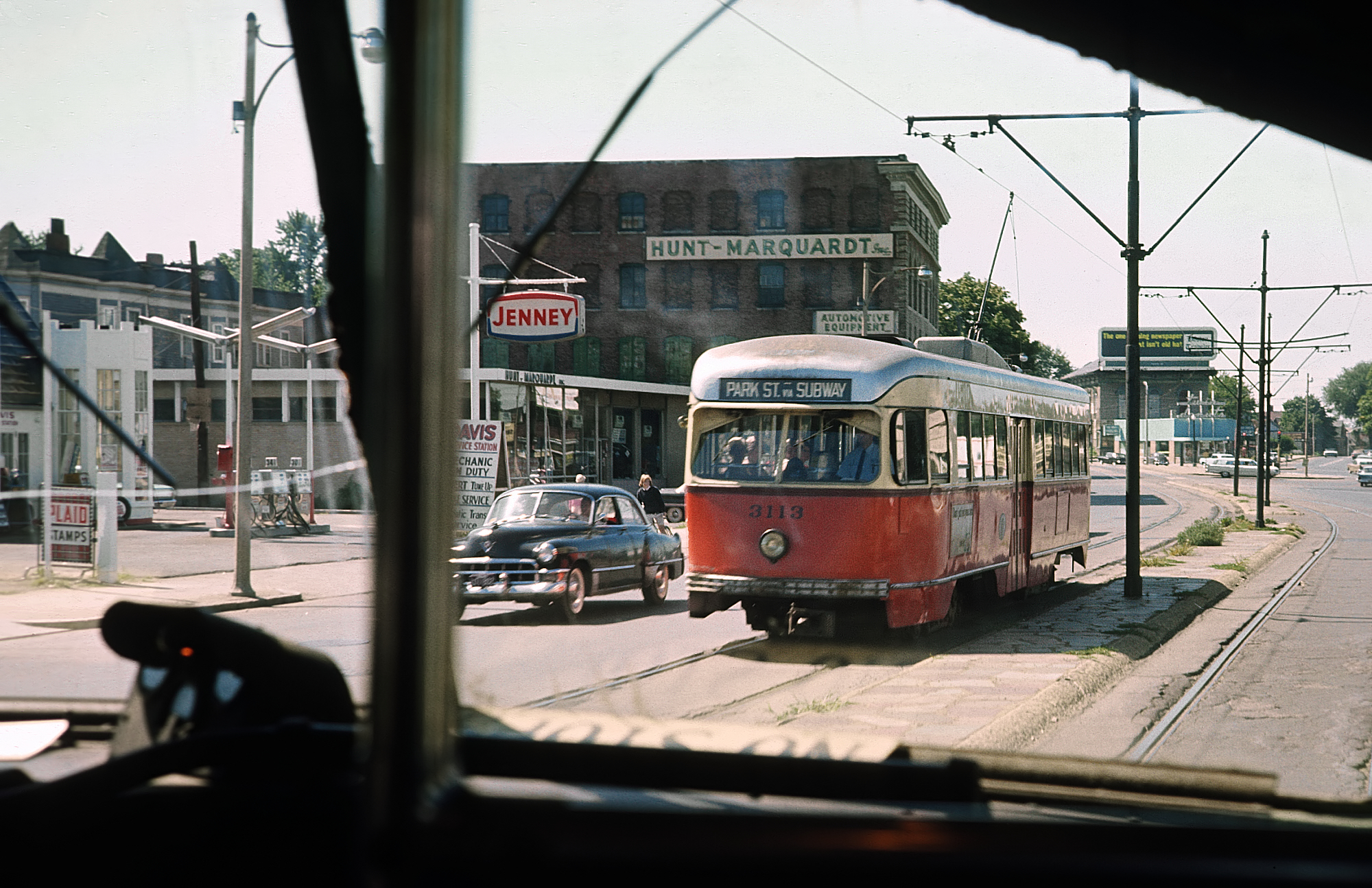 PCC streetcar #3113 inbound at Union Square in September 1965